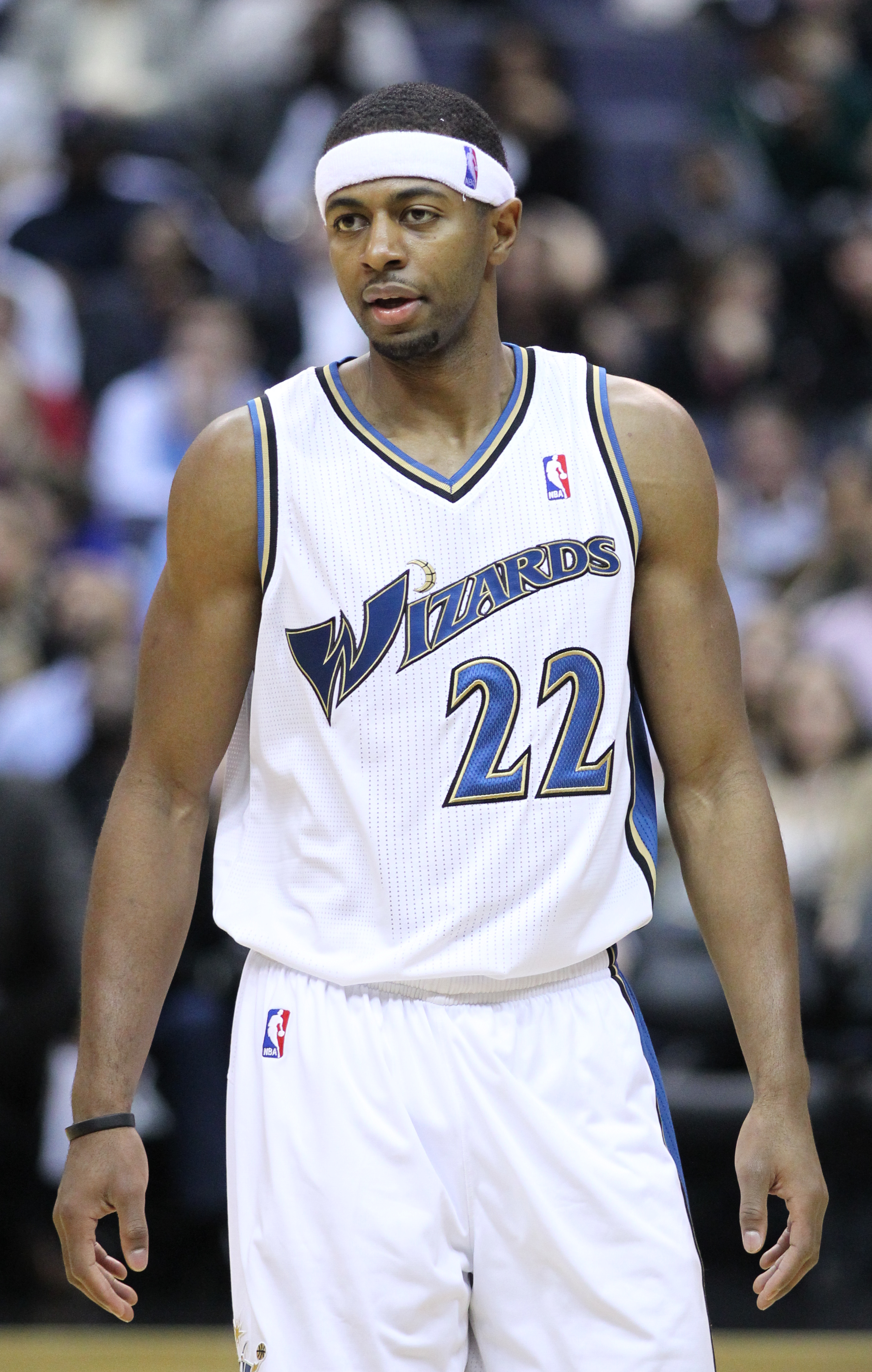 Washington Wizards v/s Denver Nuggets January 25, 2011